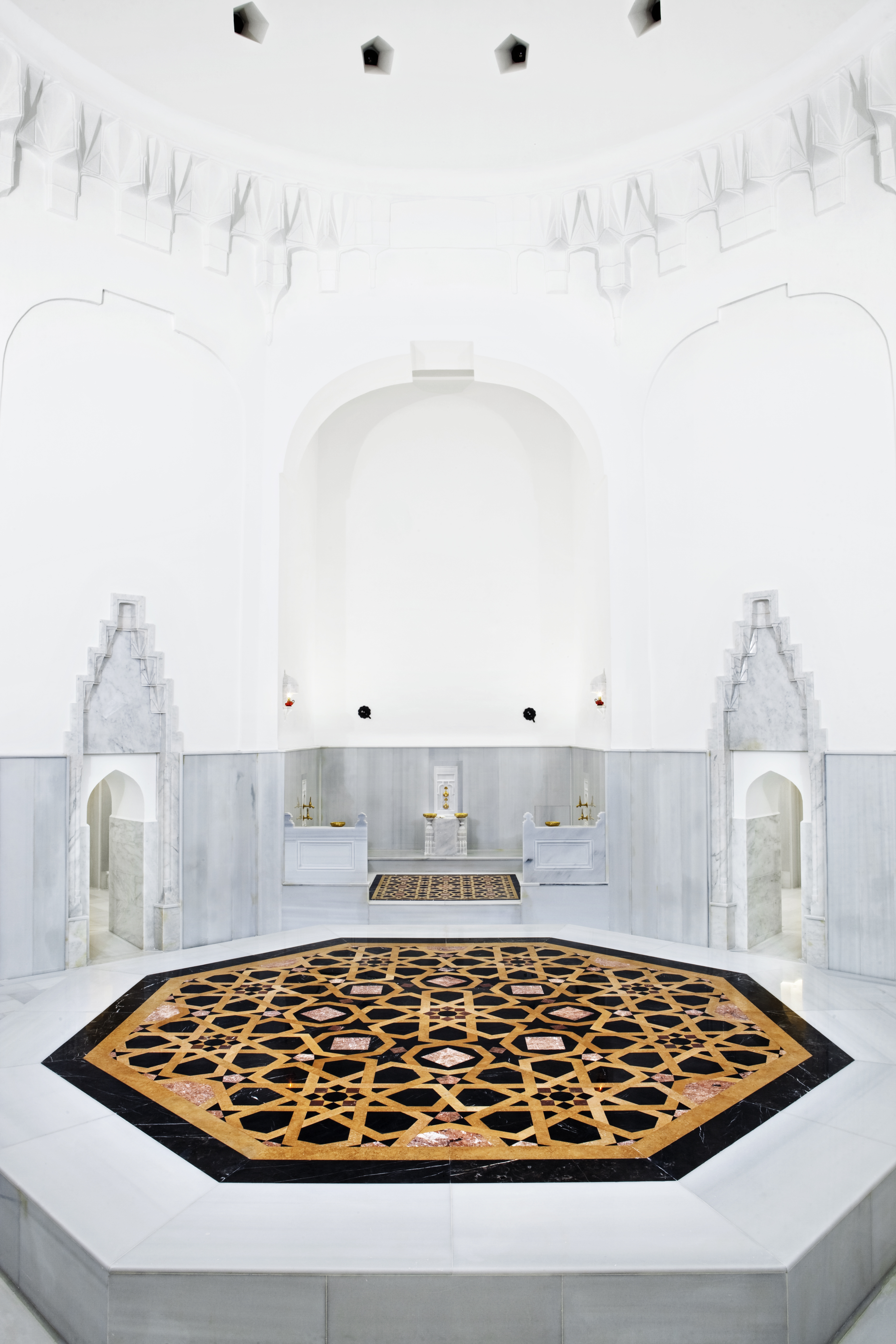 After a 3 year restoration project, the Hurrem Sultan Hamam, Roxelana Turkish Bath, is open once again to serve as a luxury and authentic Turkish Bath.